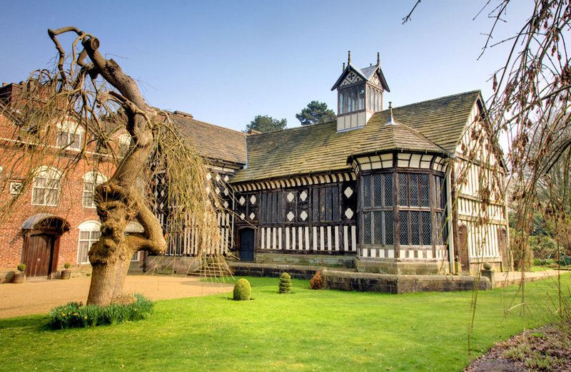 Rufford Old Hall, near to Rufford, Lancashire, Great Britain. From the grounds of Rufford Old Hall